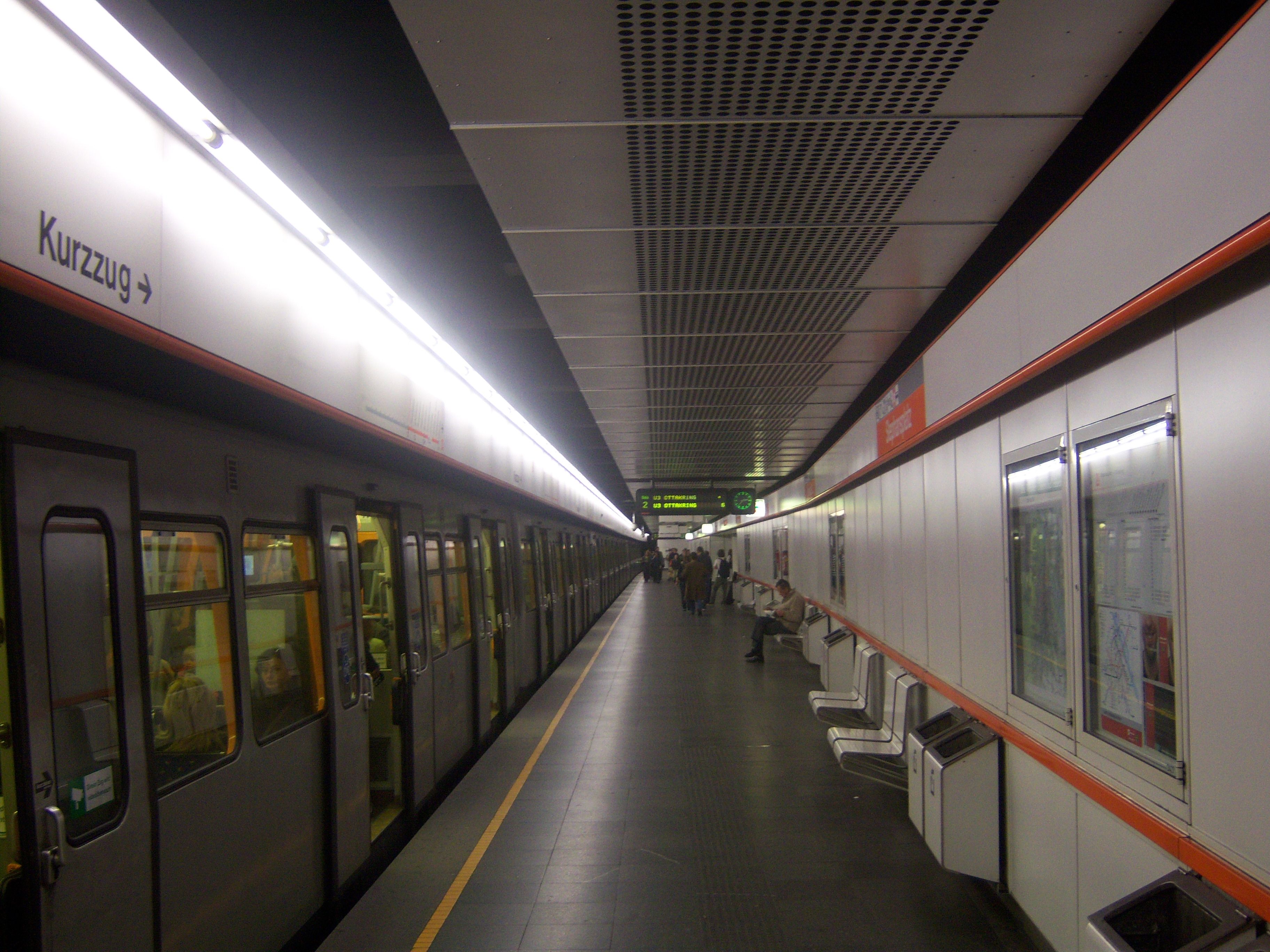 U3-Station Stephansplatz